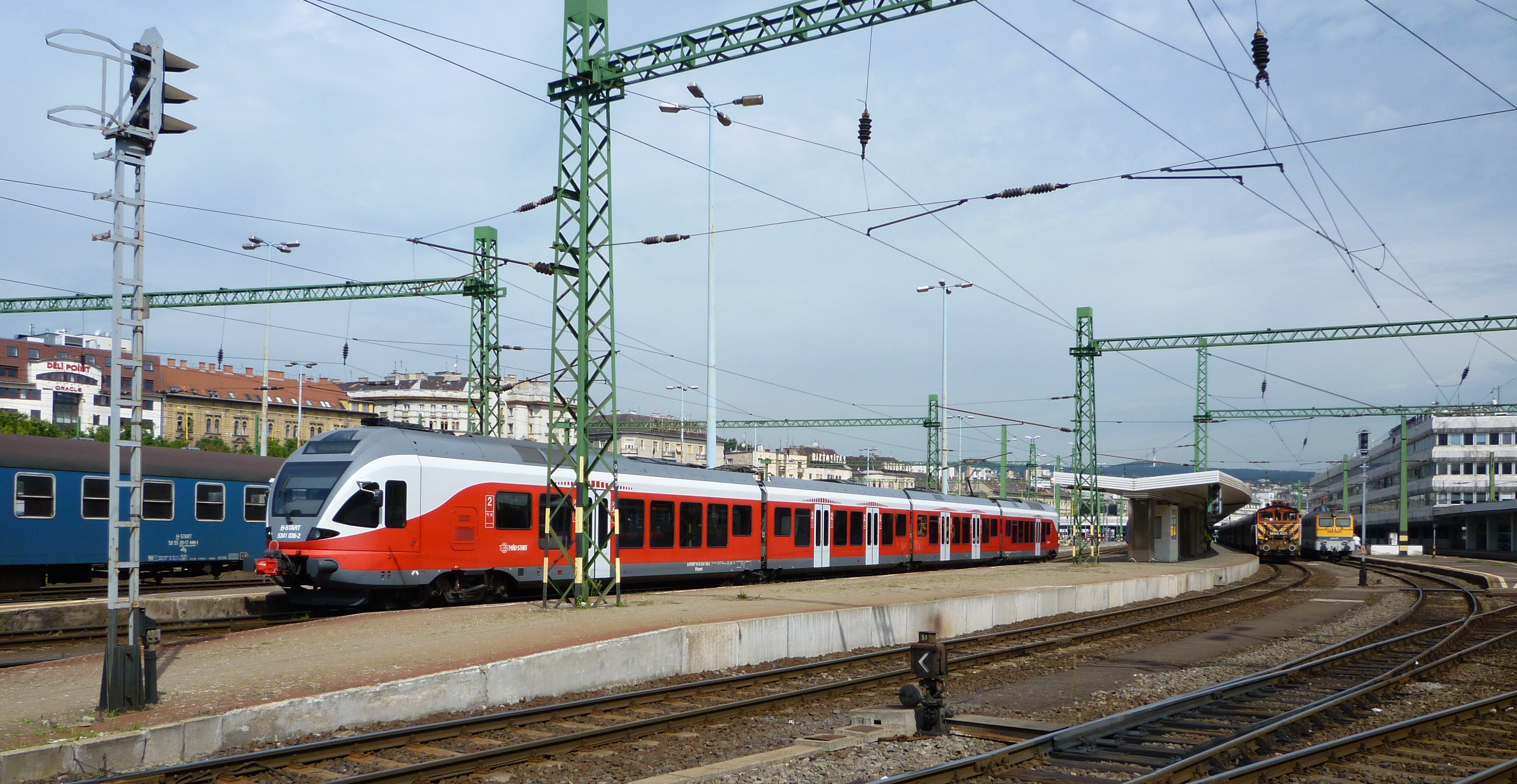 Stadler Flirt train (MÁV) at Budapest Déli pályaudvar.